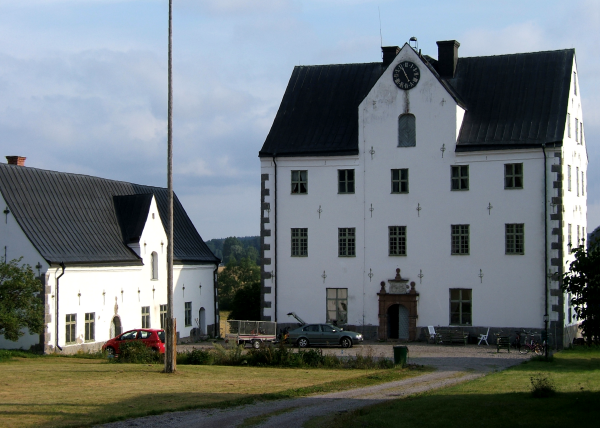 Salnecke castle south-west of Uppsala, Sweden